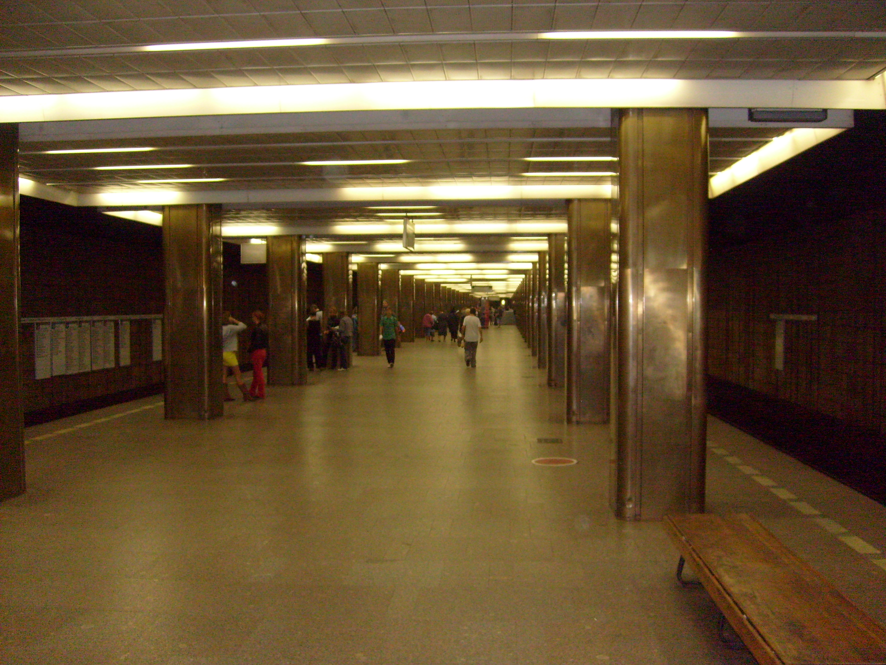 Metro station "Prazhskaya" in Moscow